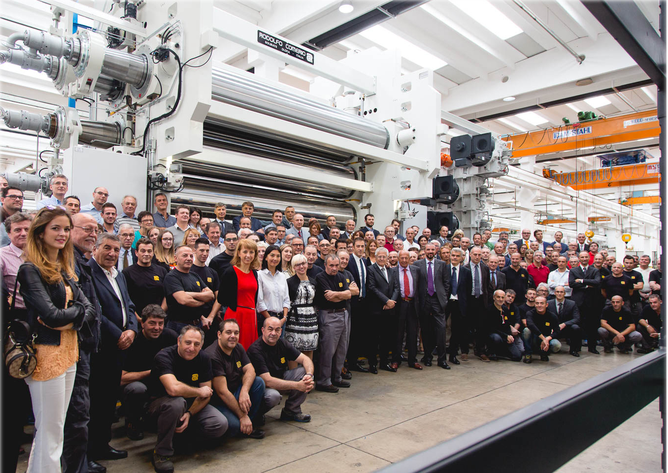 Picture of Rodolfo Comerio 5-roll calender Ø870x5000 mm taken during the Open House event on August 1-2, 2016